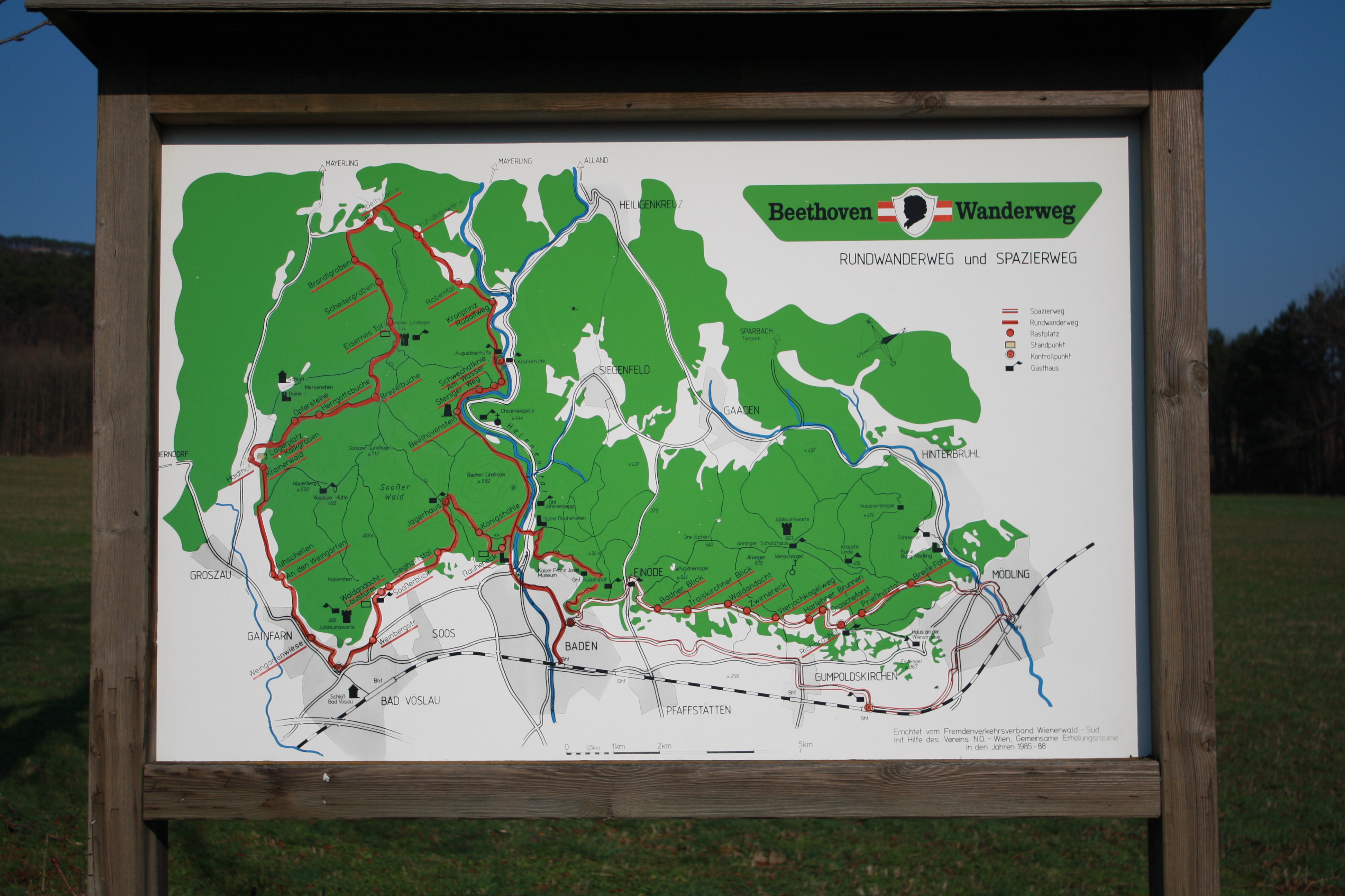 map of Beethoven-Wanderweg in Bezirk Baden, Lower Austria